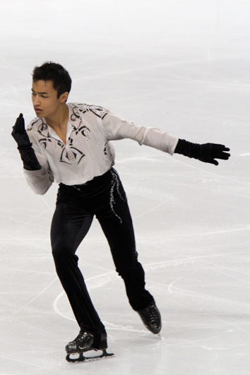 Florent Amodio at the 2010 World Championships.